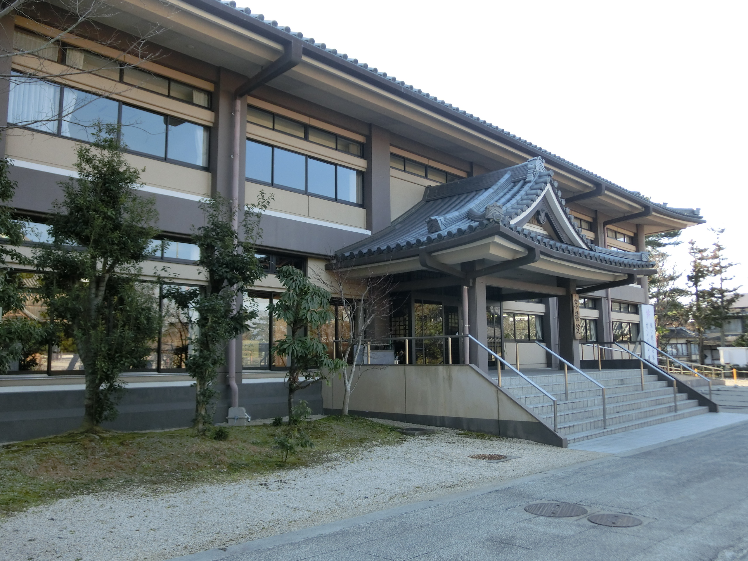 Shinshu Takada-ha Shumuin (Headquarters)